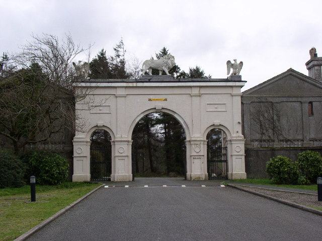 Glynllifon This is the gateway at the main entrance to Parc Glynllifon, which was for centuries the residence of the Newborough family.